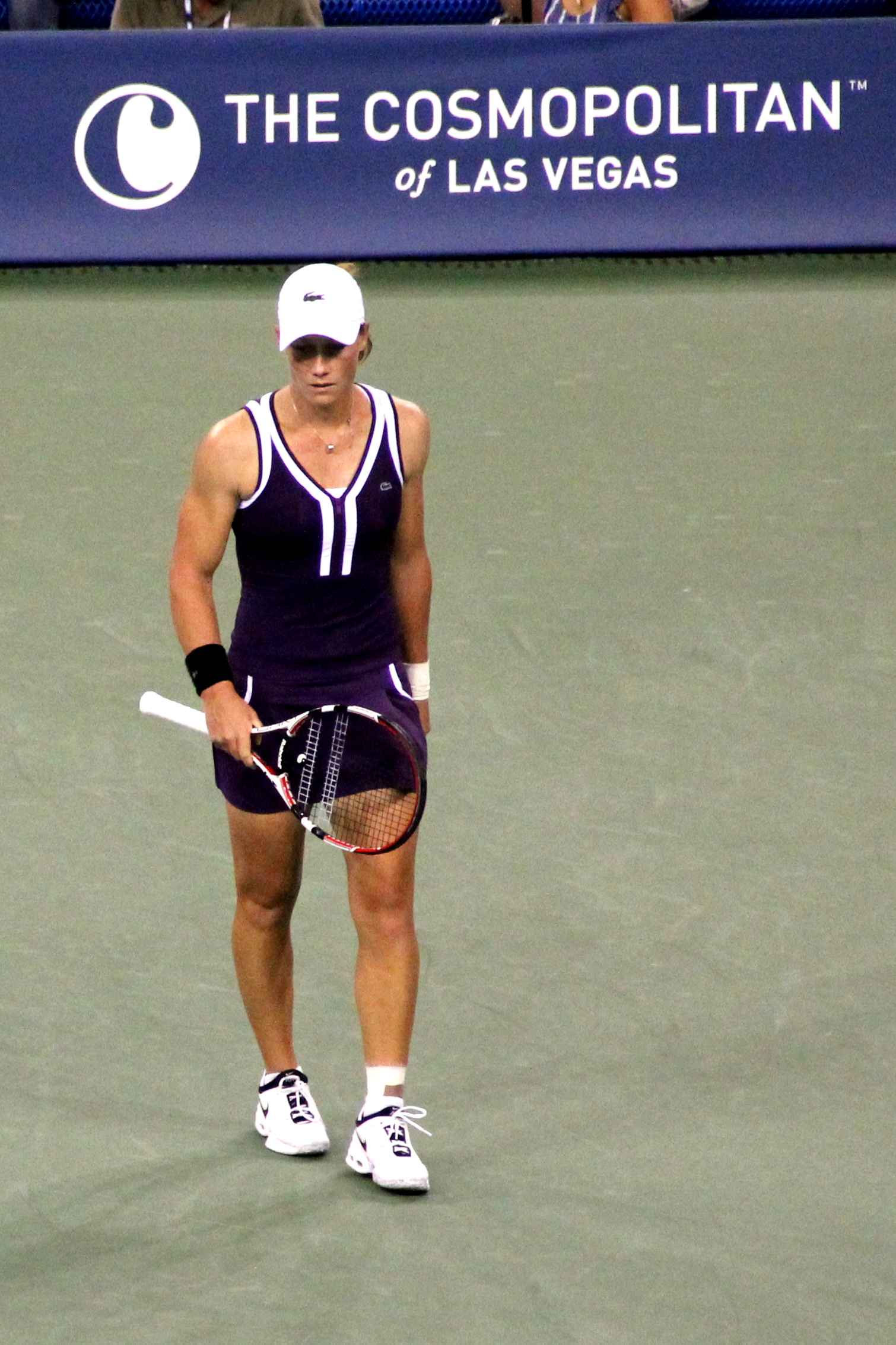 Clijsters vs. Stosur match on Tuesday night, 9/7 at the US Open. The Cosmopolitan is in New York for the 2010 US Open, inviting attendees and guests to experience signature views from our Overlook and in our custom designed suite with prime-stadium seating. For more information on The Cosmopolitan visit